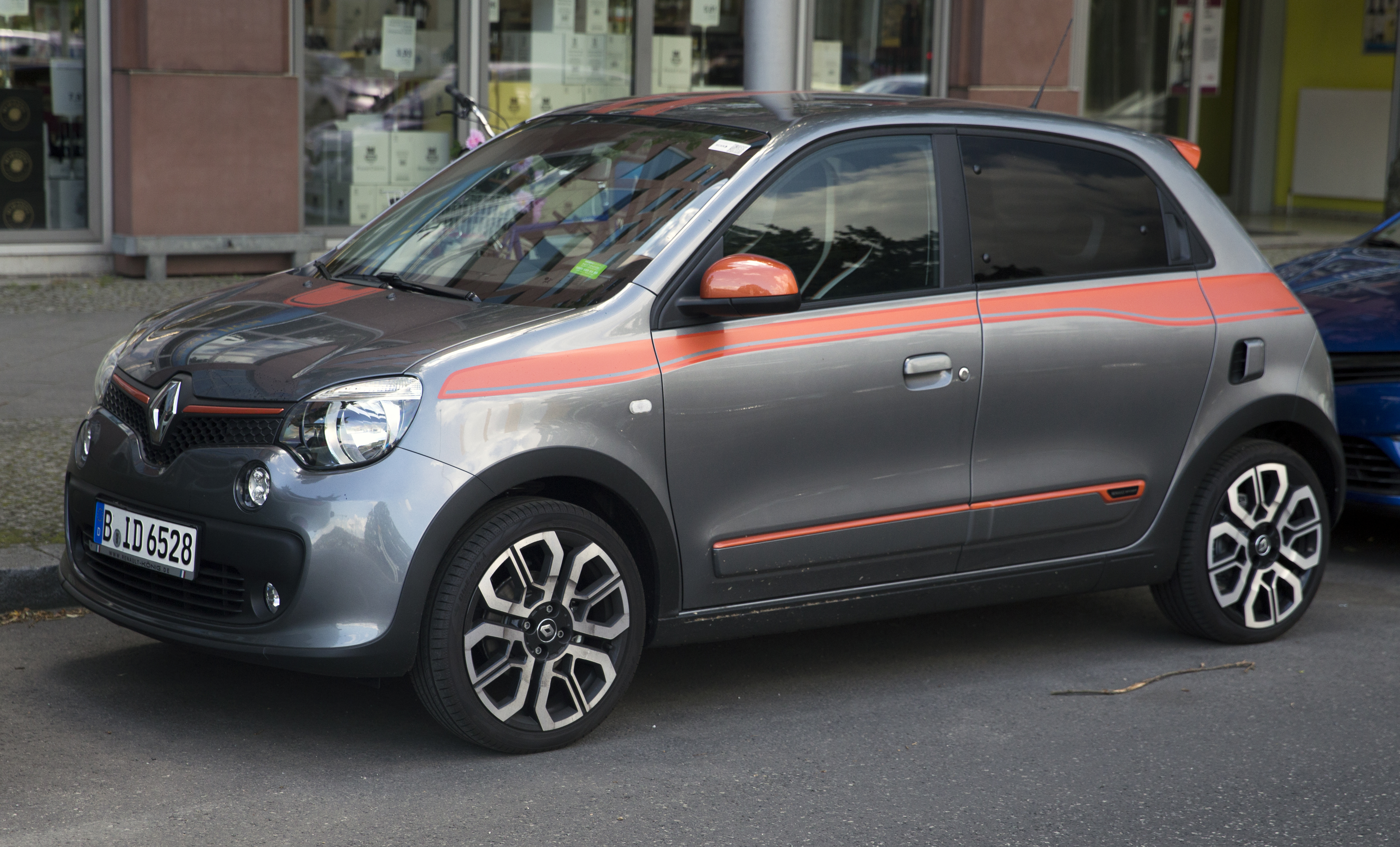 A 2017 Renault Twingo GT Energy TCe 110 in Lunaire-Grey Metallic.